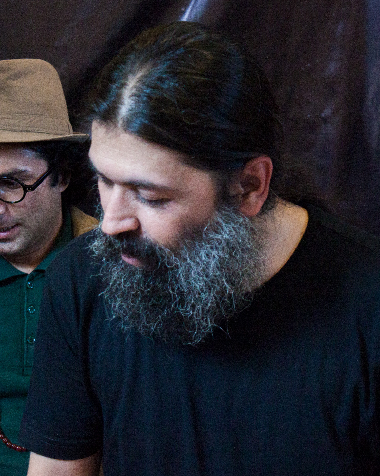 Farshid Arabi, Iranian HeavyMetal and Metal Singer and Composer in 7 Jul 2017